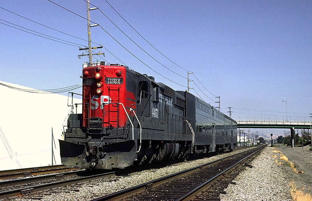 SP #4451 leads Peninsula Commute #149 under Scott Boulevard in Santa Clara, California in April 1979.